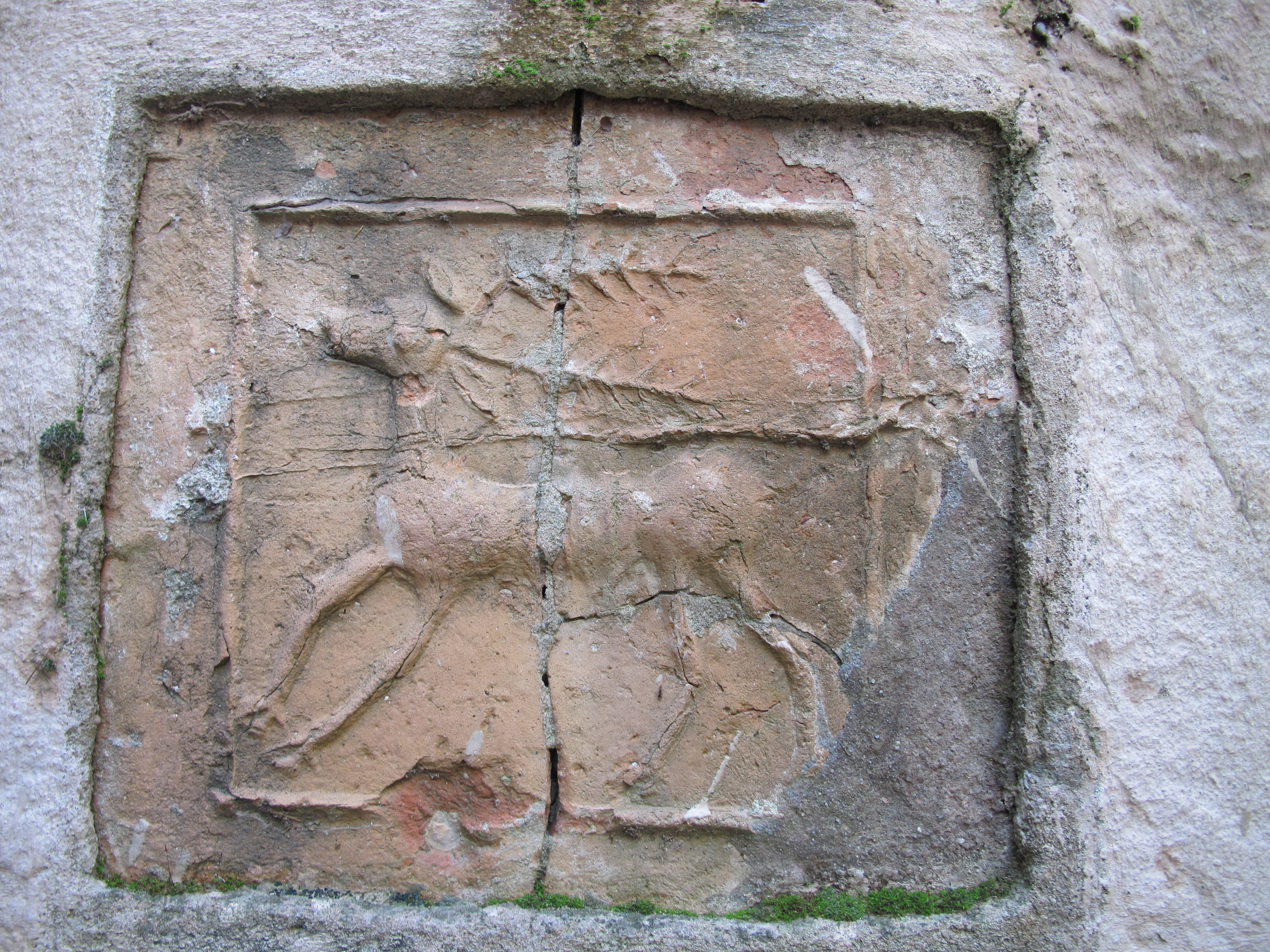 Wall tile in the chapel of Asterius, Antoninus Pius Thermal Baths, Carthage